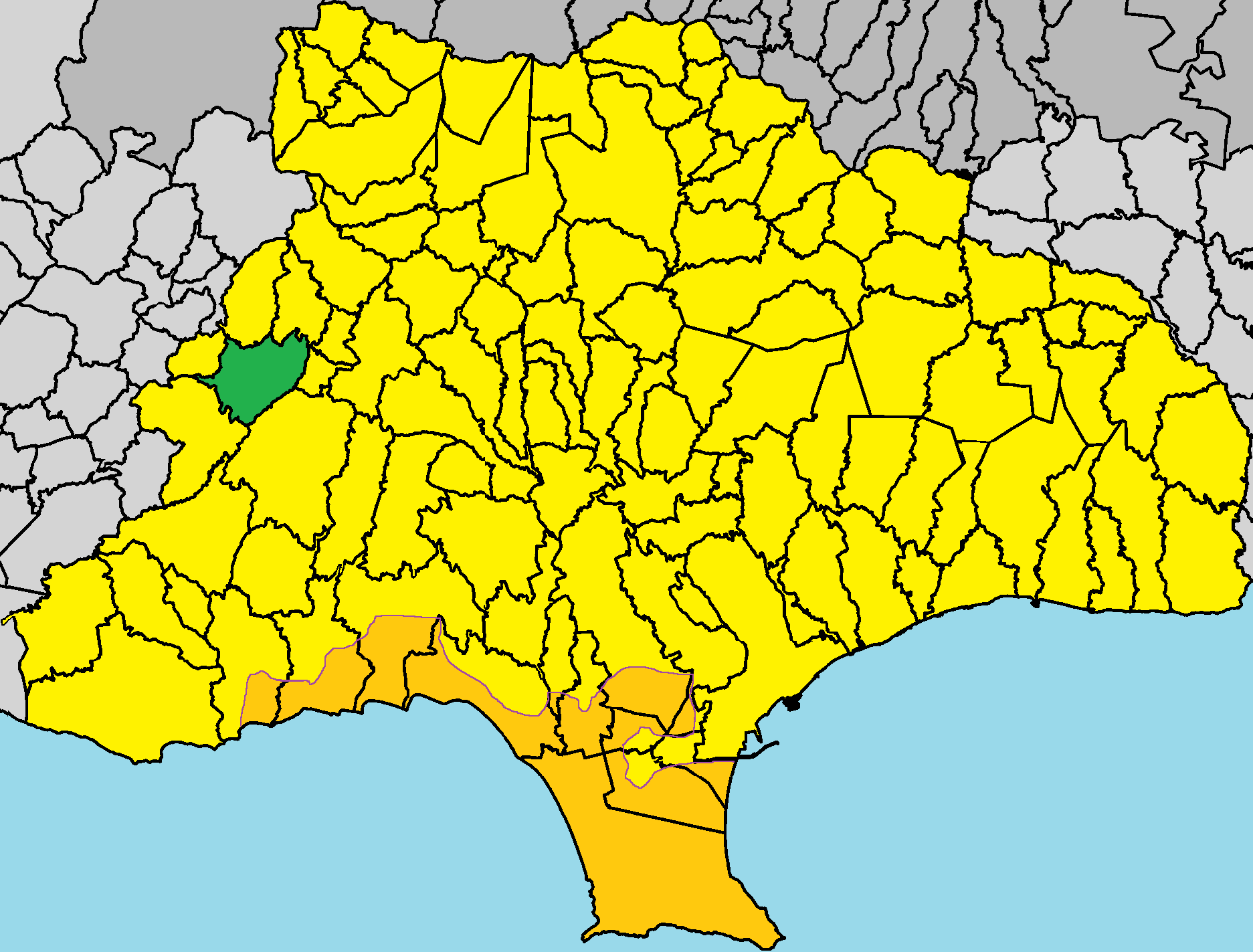 Malia, Cyprus in Limassol District.